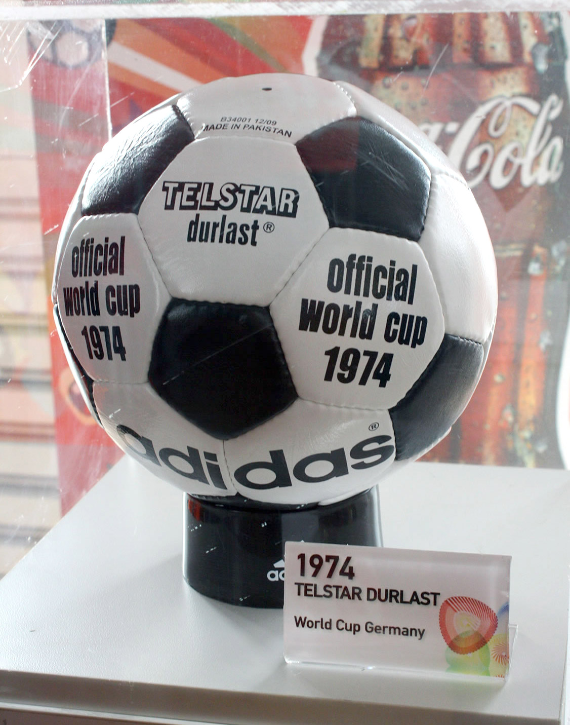 Adidas Telstar Durlast was the Official Match Ball for the 1974 FIFA World Cup Germany. "It was painted with black and white panels so it was more visible on black-and-white television. The name came from Telstar, one of the first communications satellites, which was roughly spherical and dotted with solar panels, somewhat similar in appearance to the football. It was the first World Cup ball to use the truncated icosahedron or bucky ball for its design, consisting of 12 black pentagonal and 20 white hexagonal panels, which later became the regular design of a football."